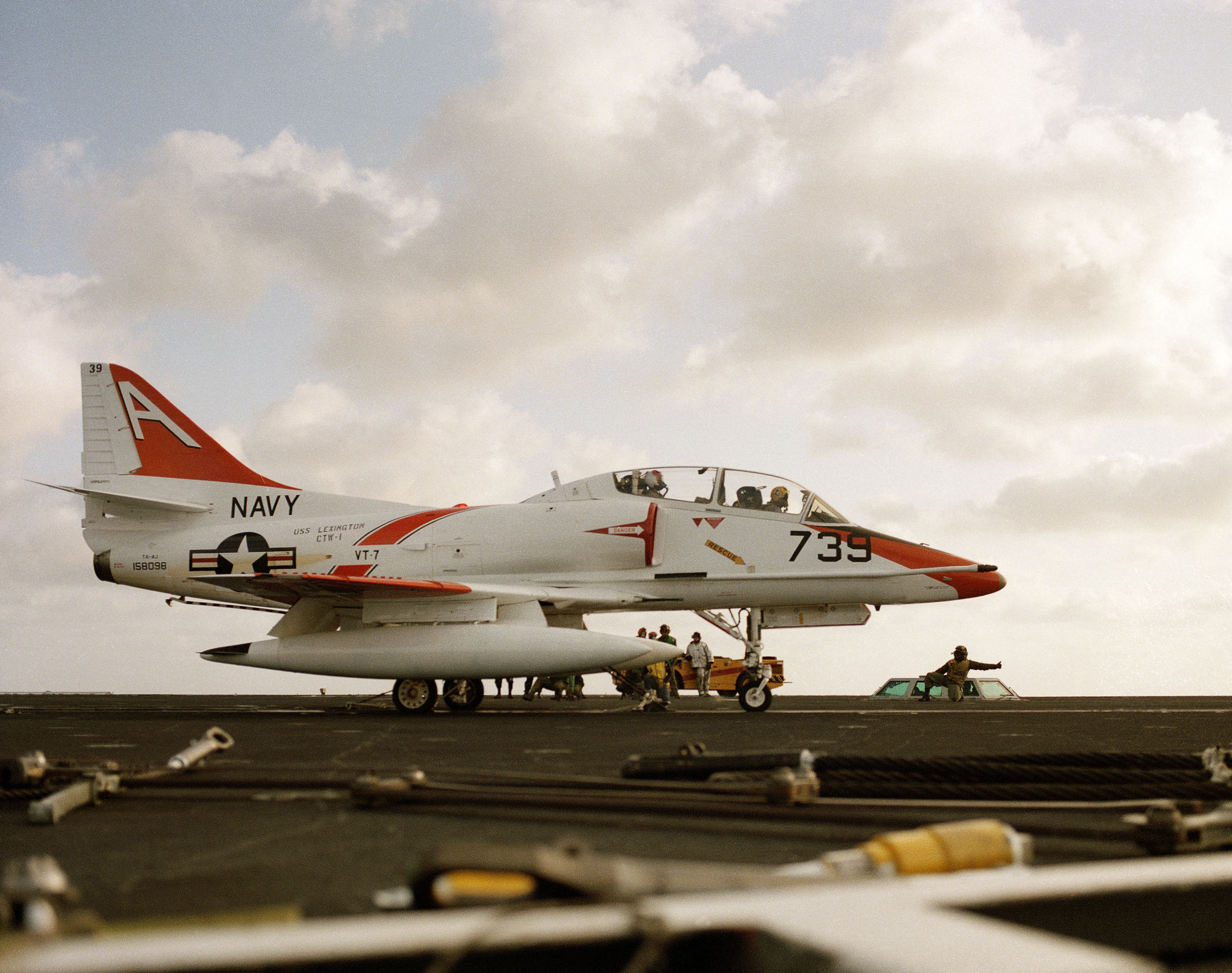 A U.S. Navy Douglas TA-4J Skyhawk (BuNo 158098) from Training Squadron 7 (VT-7) waits to be launched during flight operations aboard the nuclear-powered aircraft carrier USS Carl Vinson (CVN-70) on 20 April 1984. The TA-4J 158098 later collided with TA-4J 158125 on 10 December 1990 and crashed into the Gulf of Mexico.